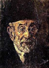 Portrait of Hale Asaf's father